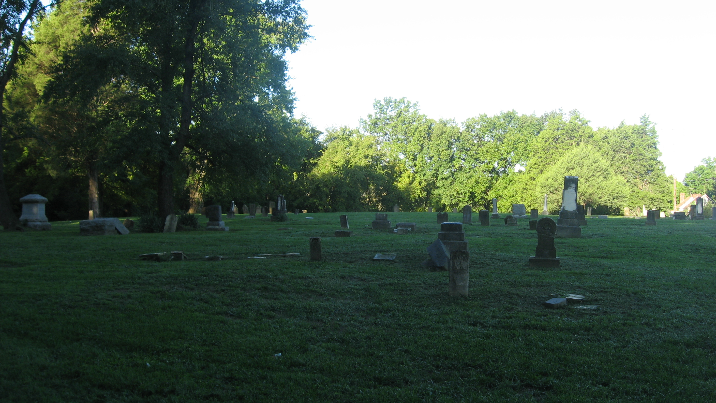 Overview (seen from the northeast) of the old Eden Reformed Presbyterian Cemetery, located on the southern side of Moffat Road between Sparta and Eden in Sparta Precinct, Randolph County, Illinois, United States.